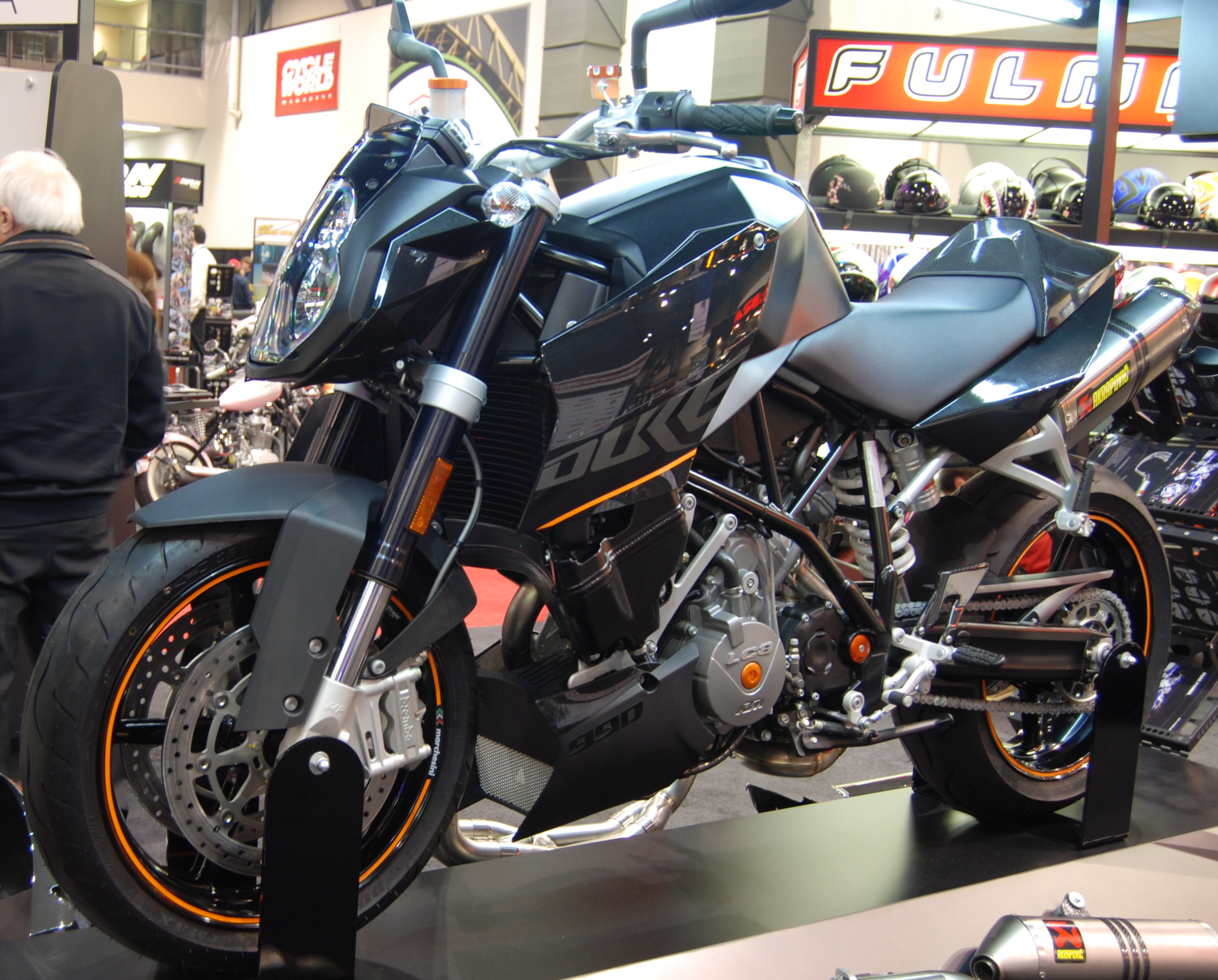 KTM Super Duke at the 2009 Seattle International Motorcycle Show